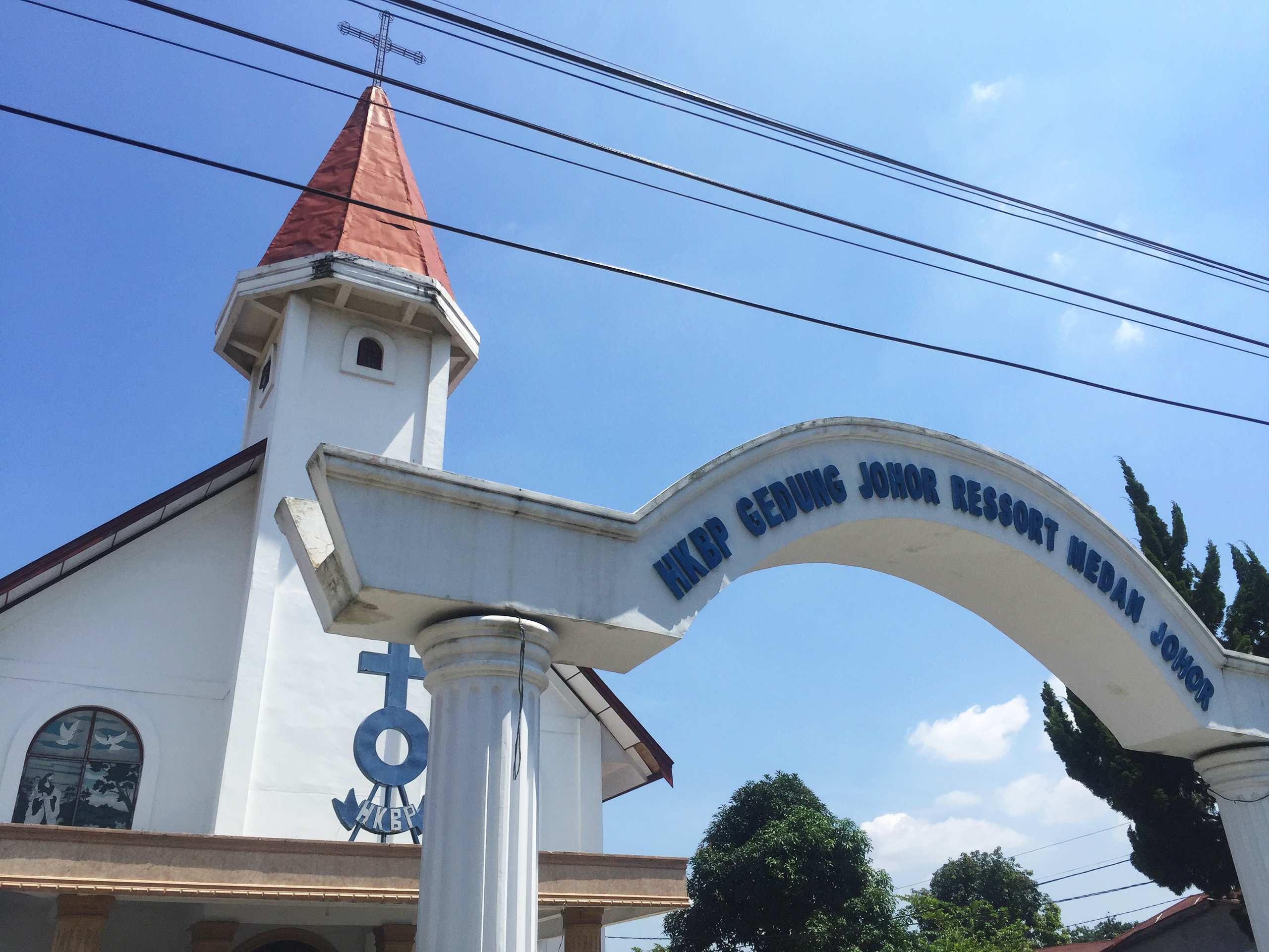 HKBP Gedung Johor, church in Pangkalan Mahsyur, Medan Johor, Medan